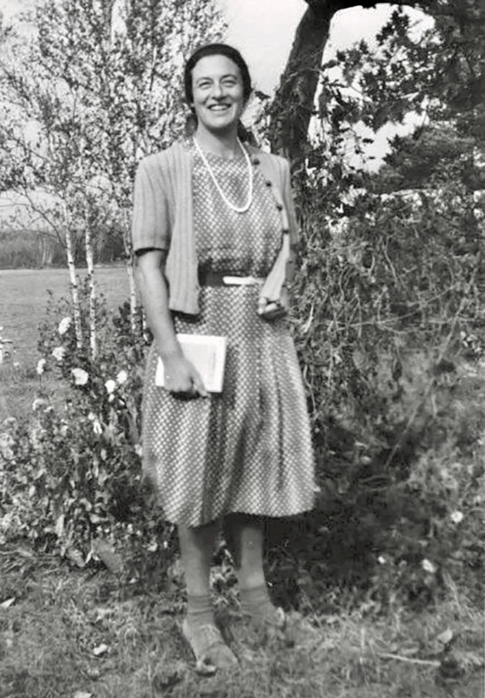 Hertha Mendel